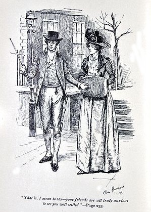 "That is, I mean to say—your friends are all truly anxious to see you well settled" - John Dashwood expressing his wishes to Elinor. Austen, Jane. Sense and Sensibility. London: George Allen, 1899, frontispiece.